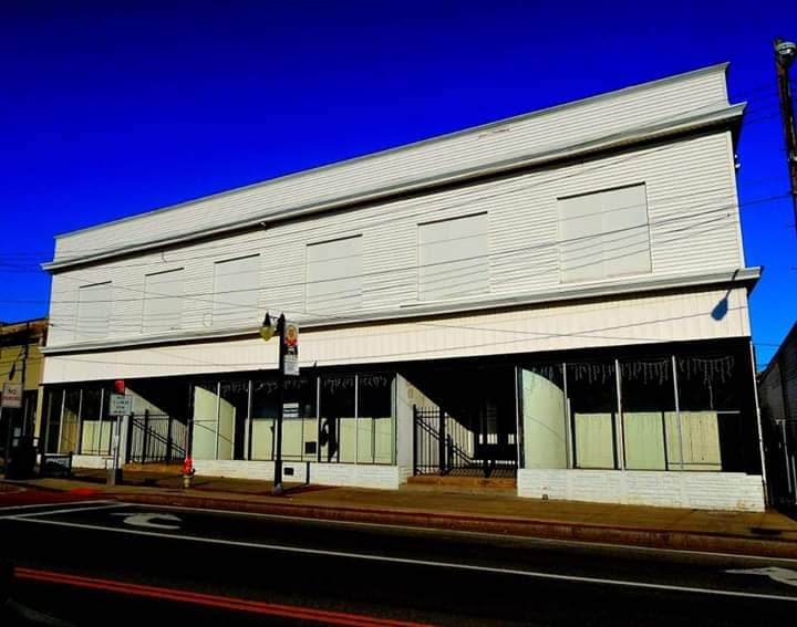 The former Maxine's Department Store is the new home of The Arctic Playhouse, 1249 Main St, West Warwick, RI